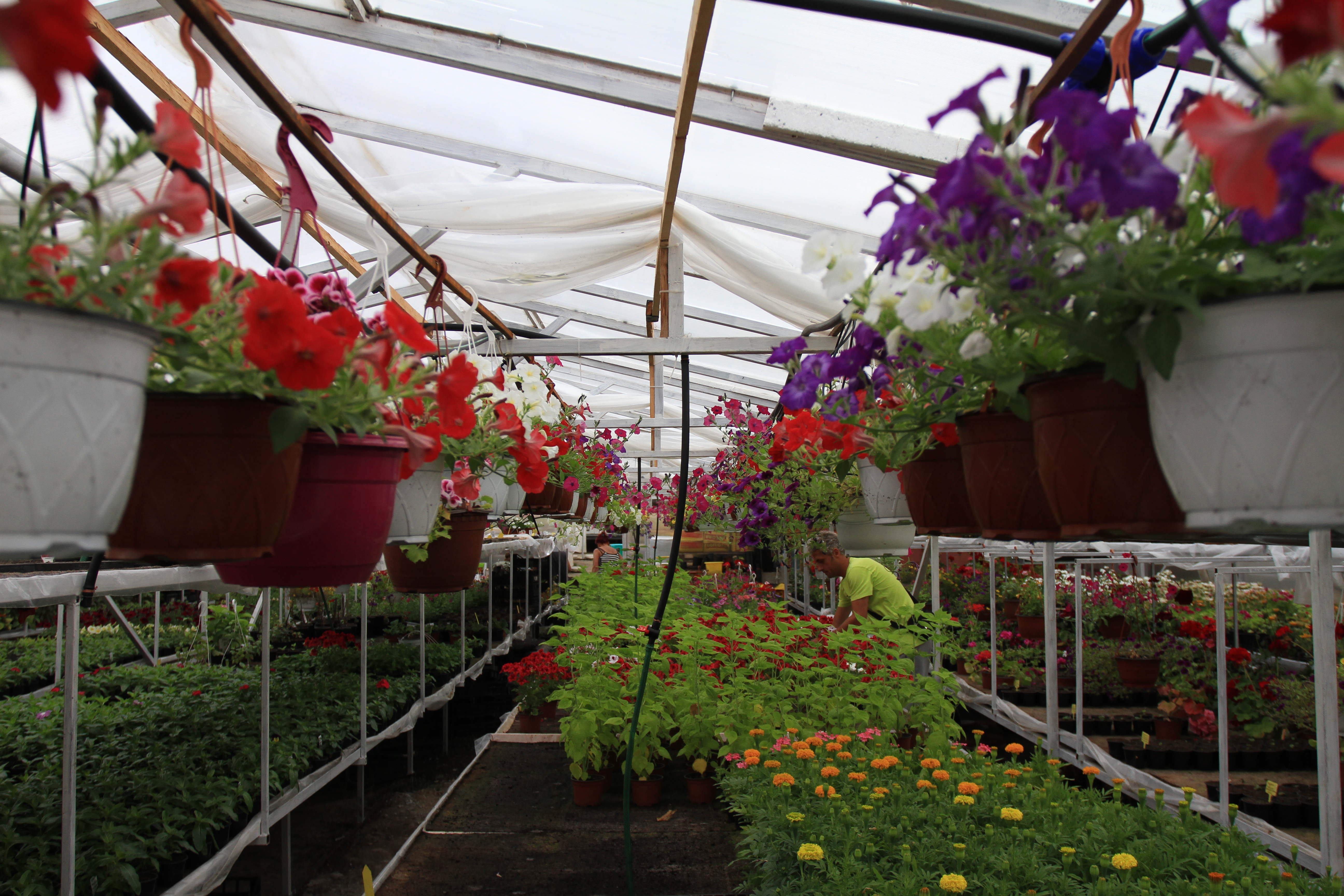 "Cveti Cvet" Galabovtsi village, Bulgaria